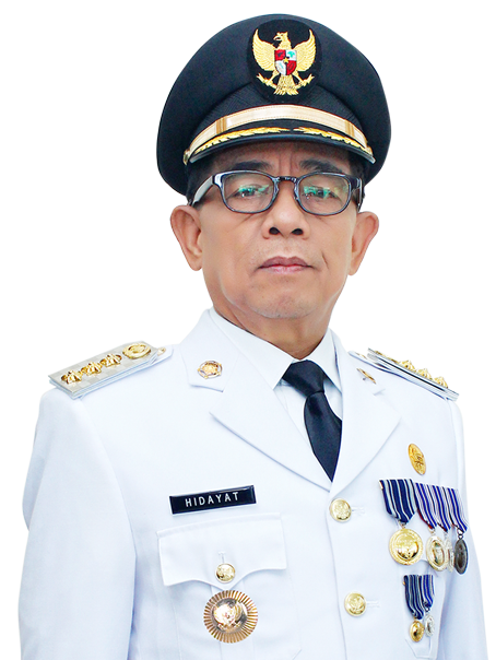 Regent of Kepahiang, Bengkulu, Indonesia